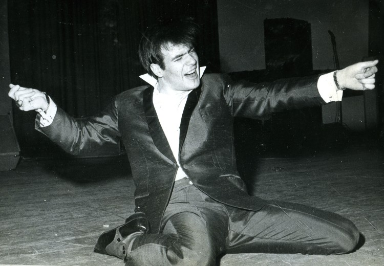 Jan Rohde